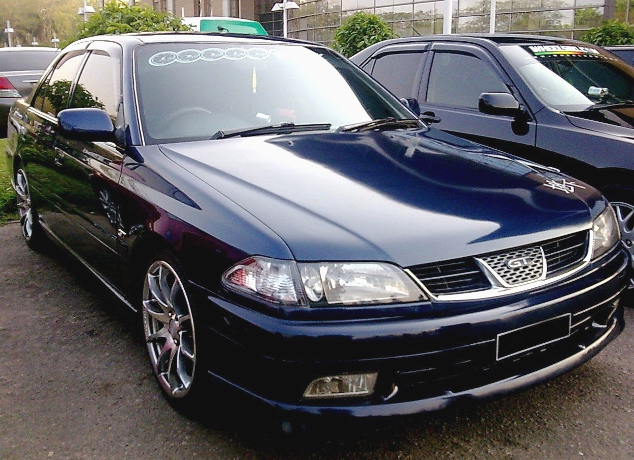 Picture taken in Bangladesh, Dhaka